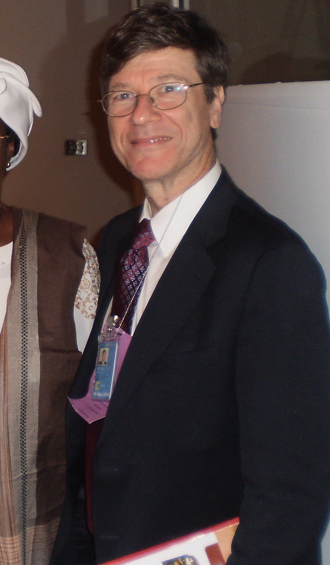 Jeffrey Sachs at a UN Meeting, 2009